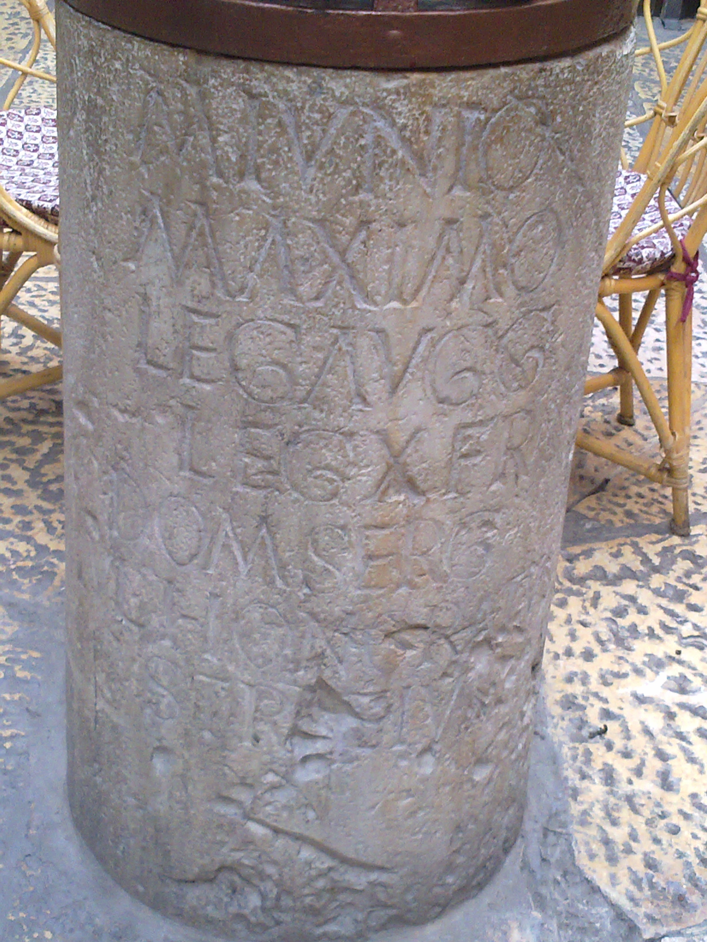 10th Legion Column near Hotel Imperial in Jerusalem